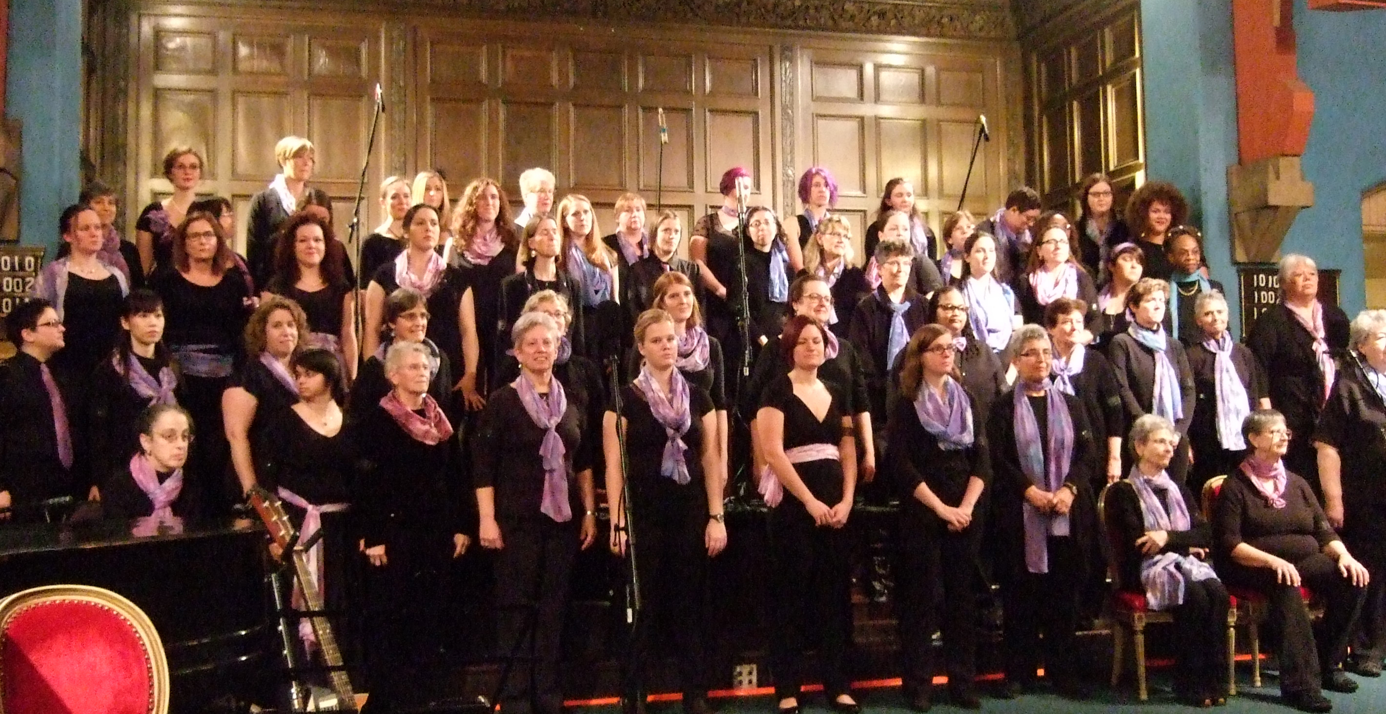 Portrait of the Anna Crusis Women's Choir taken at the December 7, 2014 Anna Crusis Women's Choir concert at First Unitarian Church, 2125 Chestnut St., Phila. PA.